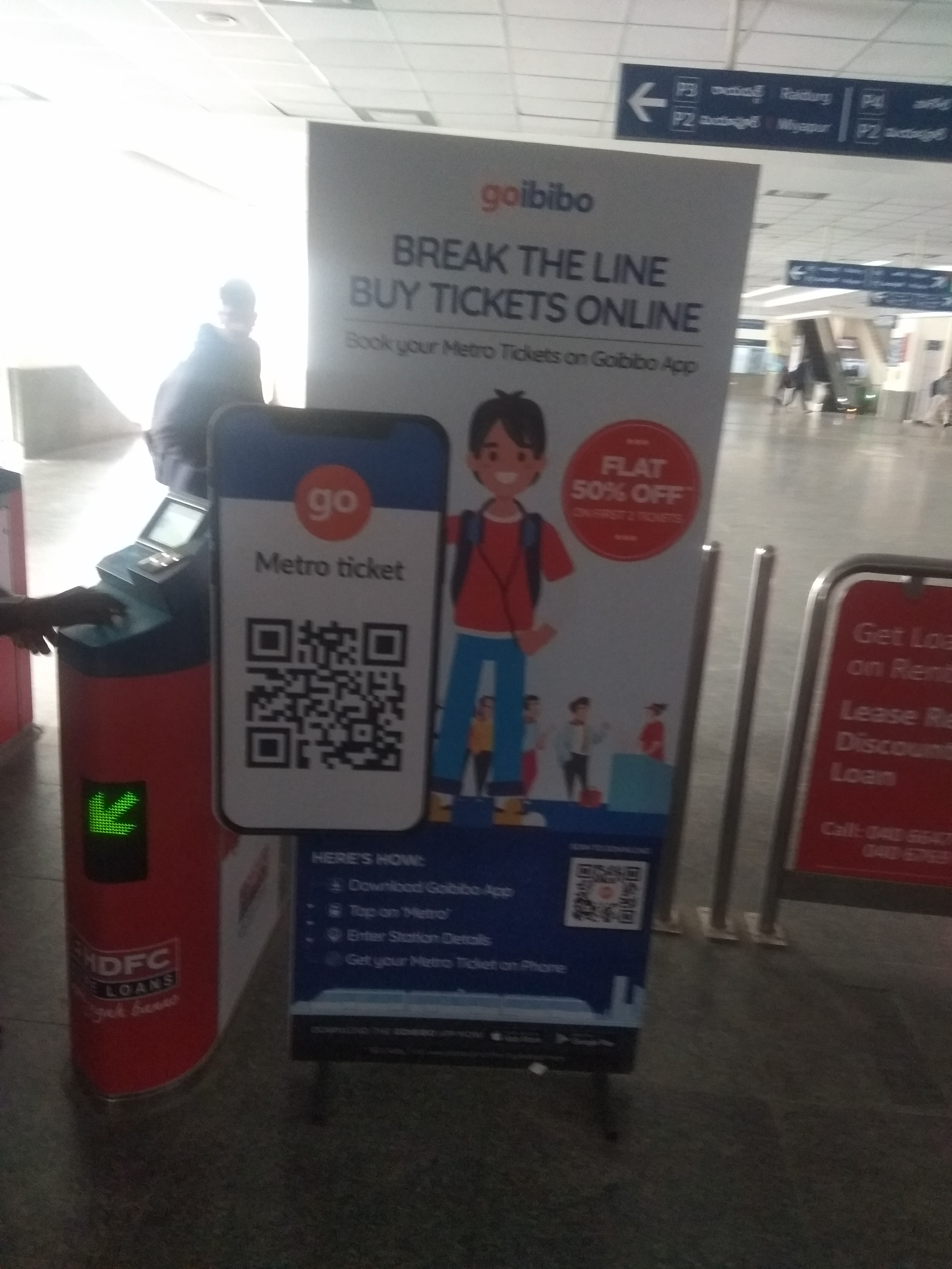 Hyderabad metro online booking MMT goibibo